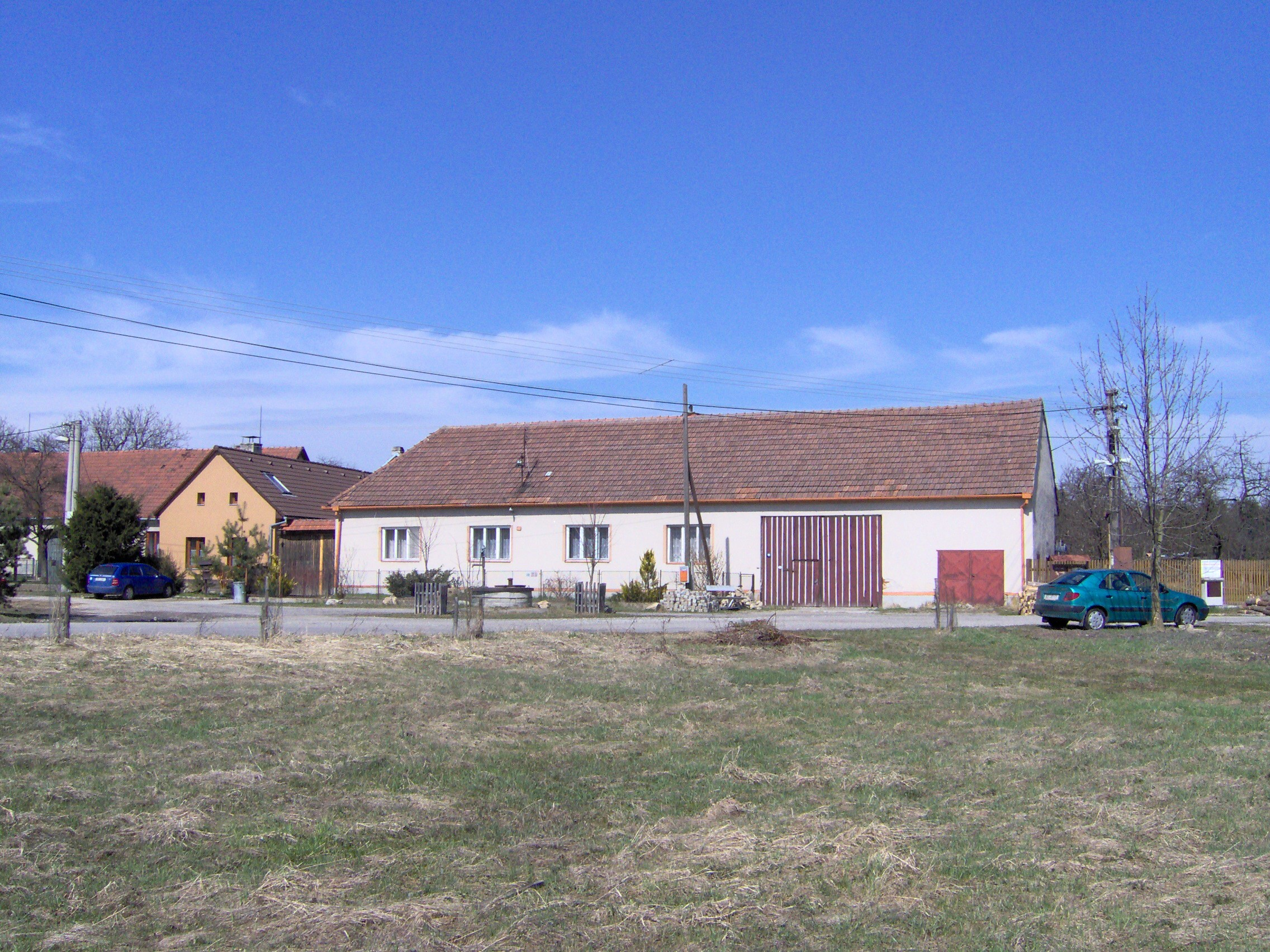 Ondrušky village, Žďár nad Sázavou District, Czech Republic